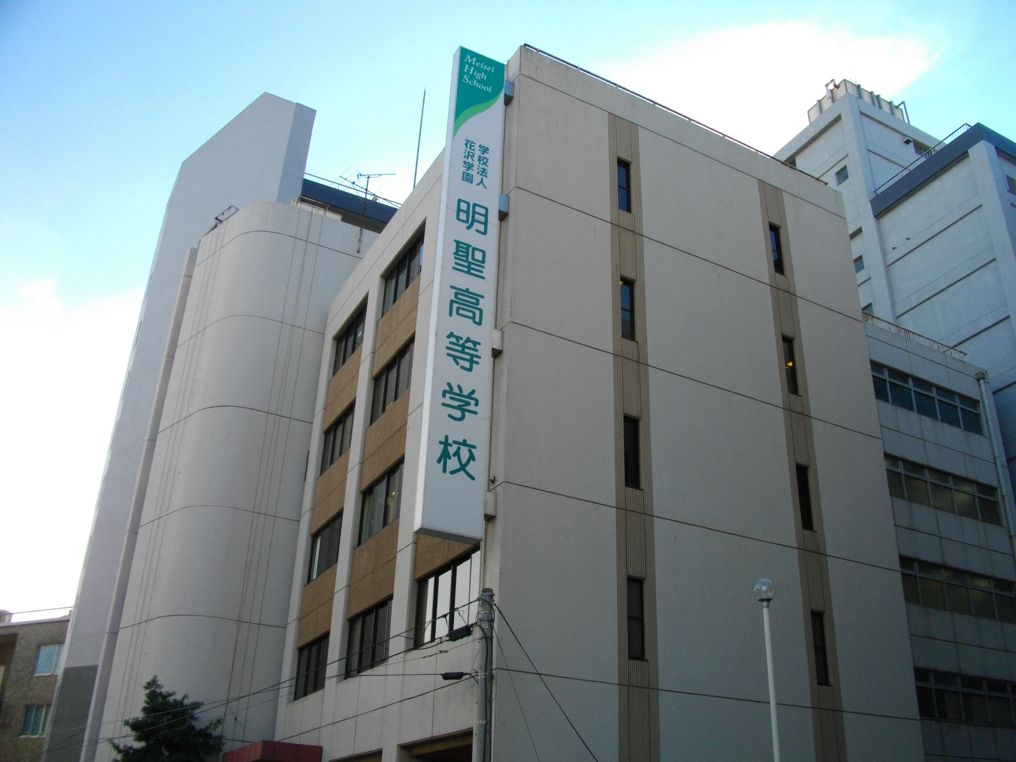 Meisei High School (Chiba)